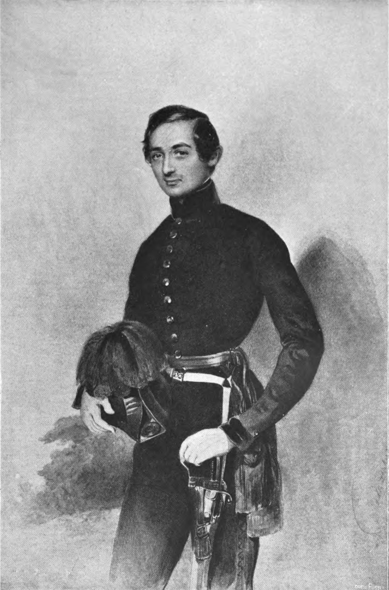 Anton Mollinary Freiherr von Monte Pastello (1820–1904), Austrian general